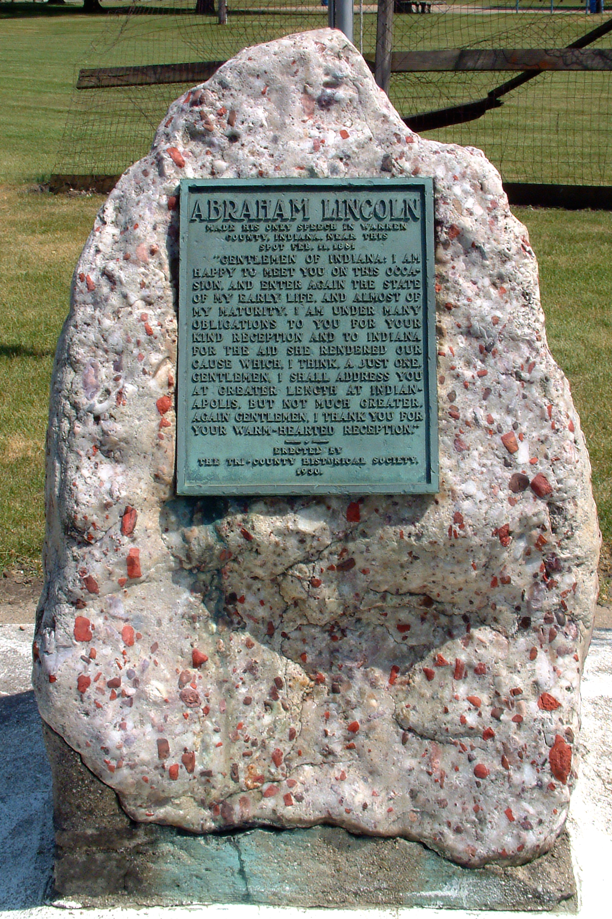 The historical marker at the town square in State Line City, Indiana, commemorating a brief speech made by President Elect Abraham Lincoln. The plaque reads: Abraham Lincoln made his only speech in Warren County, Indiana, near this spot Feb. 11, 1861. "Gentlemen of Indiana: I am happy to meet you on this occasion, and enter again the state of my early life, and almost of my maturity. I am under many obligations to you for your kind reception and to Indiana for the aid she rendered our cause which I think a just one. Gentlemen, I shall address you at greater length at Indianapolis, but not much greater. Again gentlemen, I thank you for your warm-hearted reception." Erected by the Tri-County Historical Society, 1930.